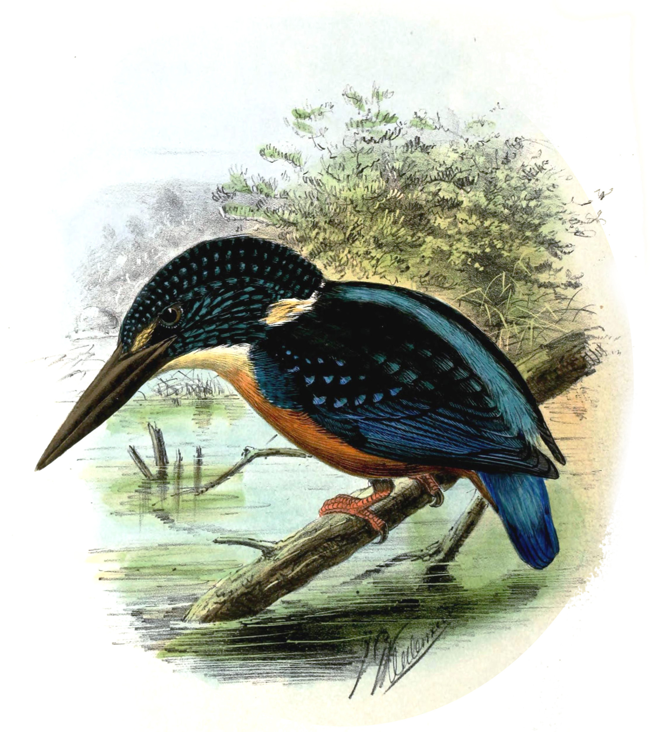 Alcedo grandis by Keulemans [= Alcedo hercules]